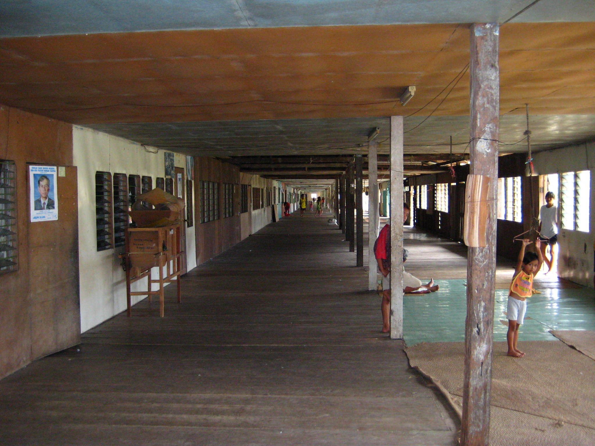 iban longhouse